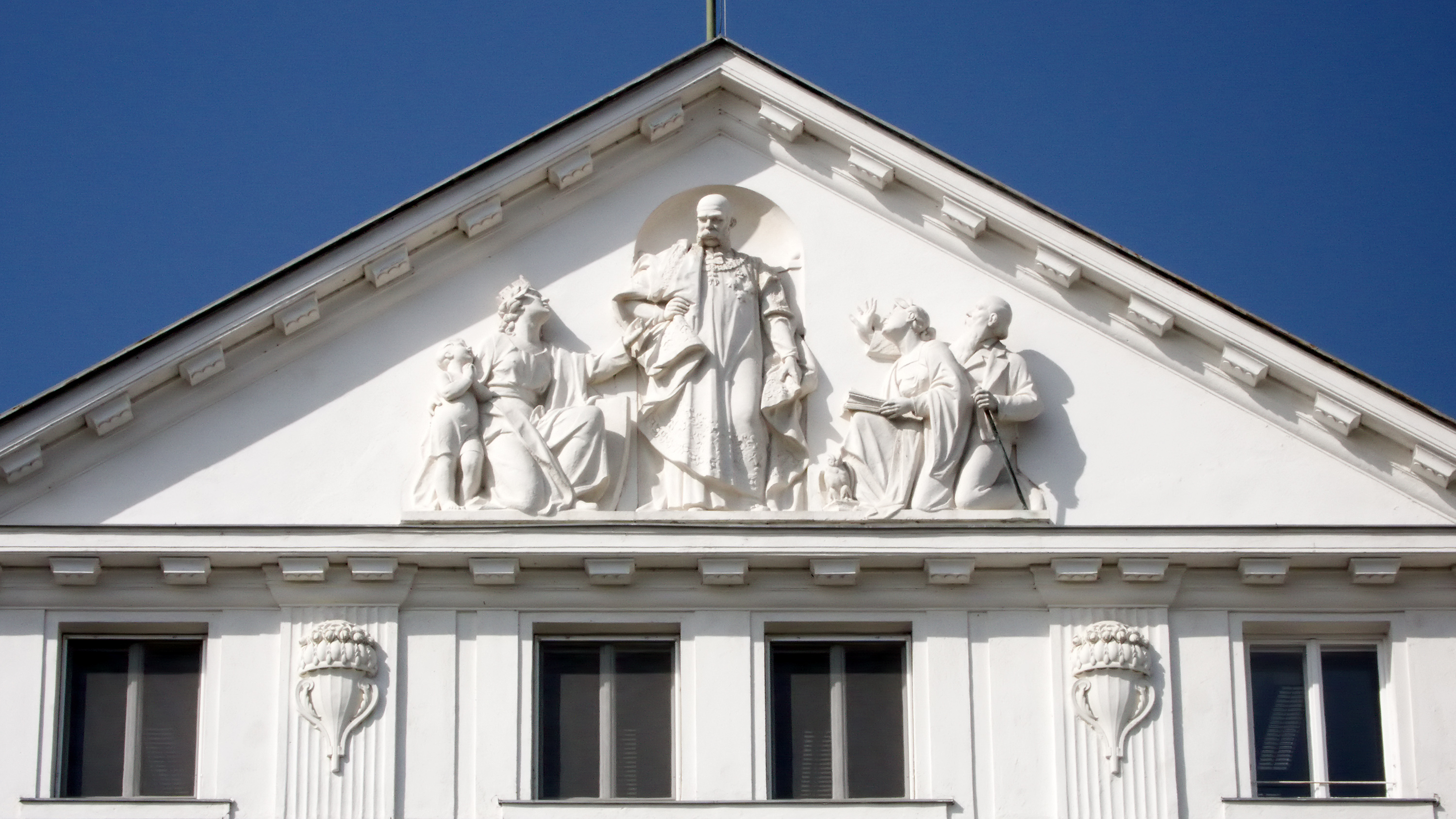 Hospital Krankenhaus Lainz in Vienna Hietzing